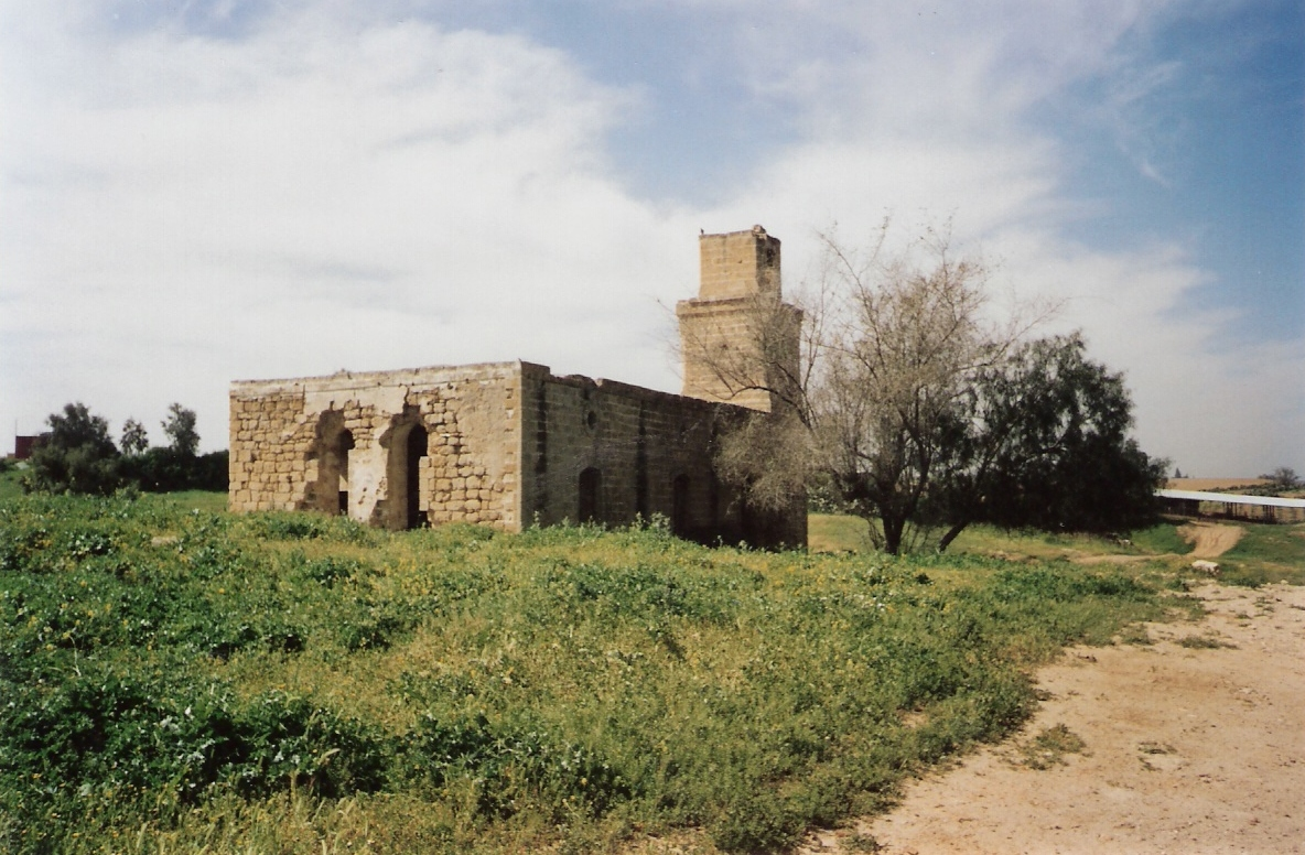 mosque of kofakha, israel